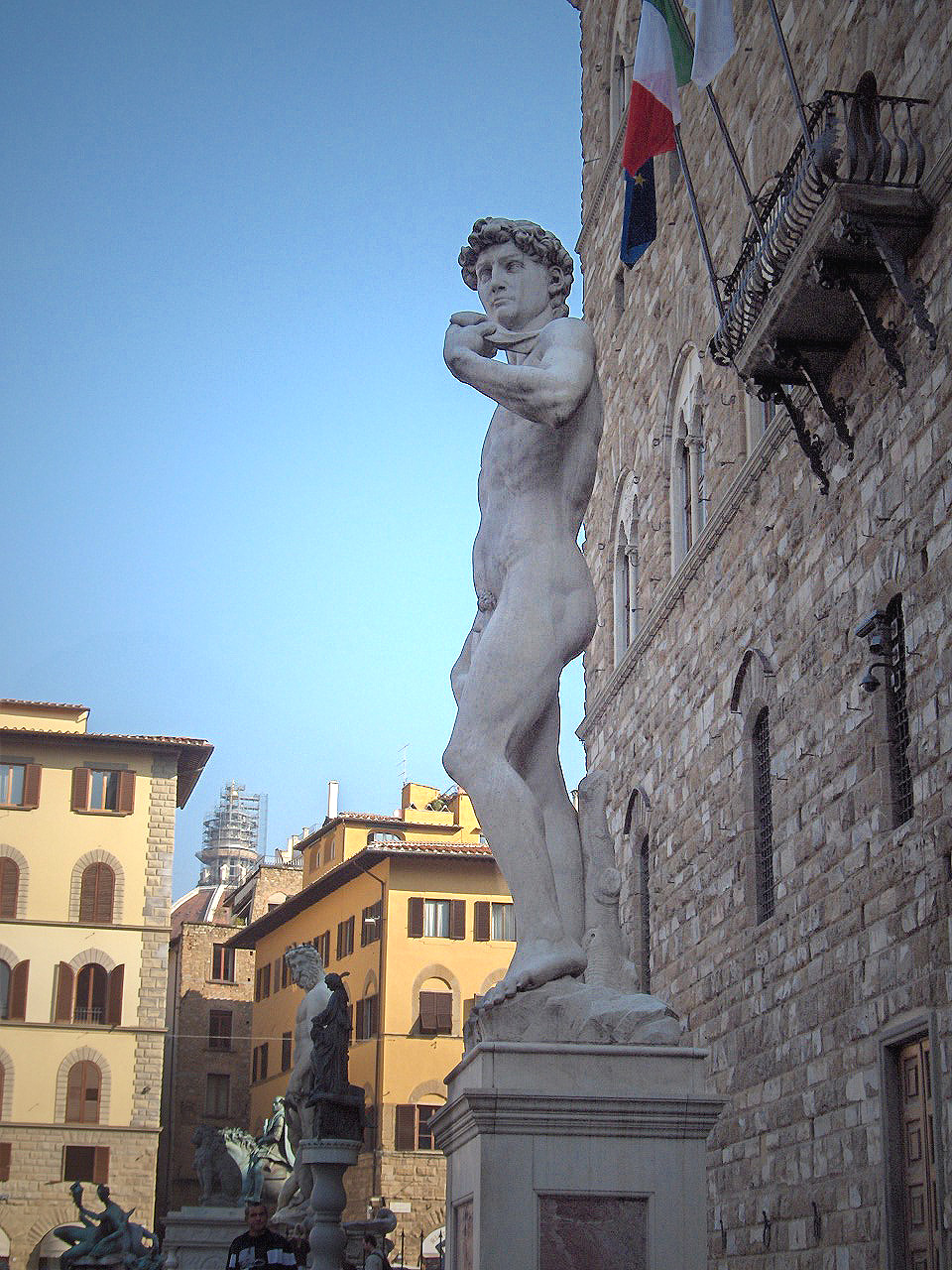 Replica of the statue of David by Michelangelo; Piazza della Signoria, Florence, Italy Own photo - photo made on 12 october 2005